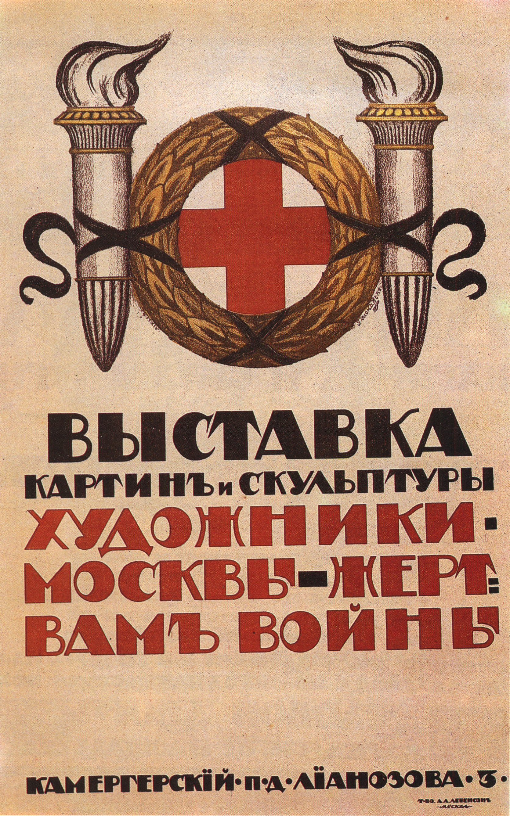 poster